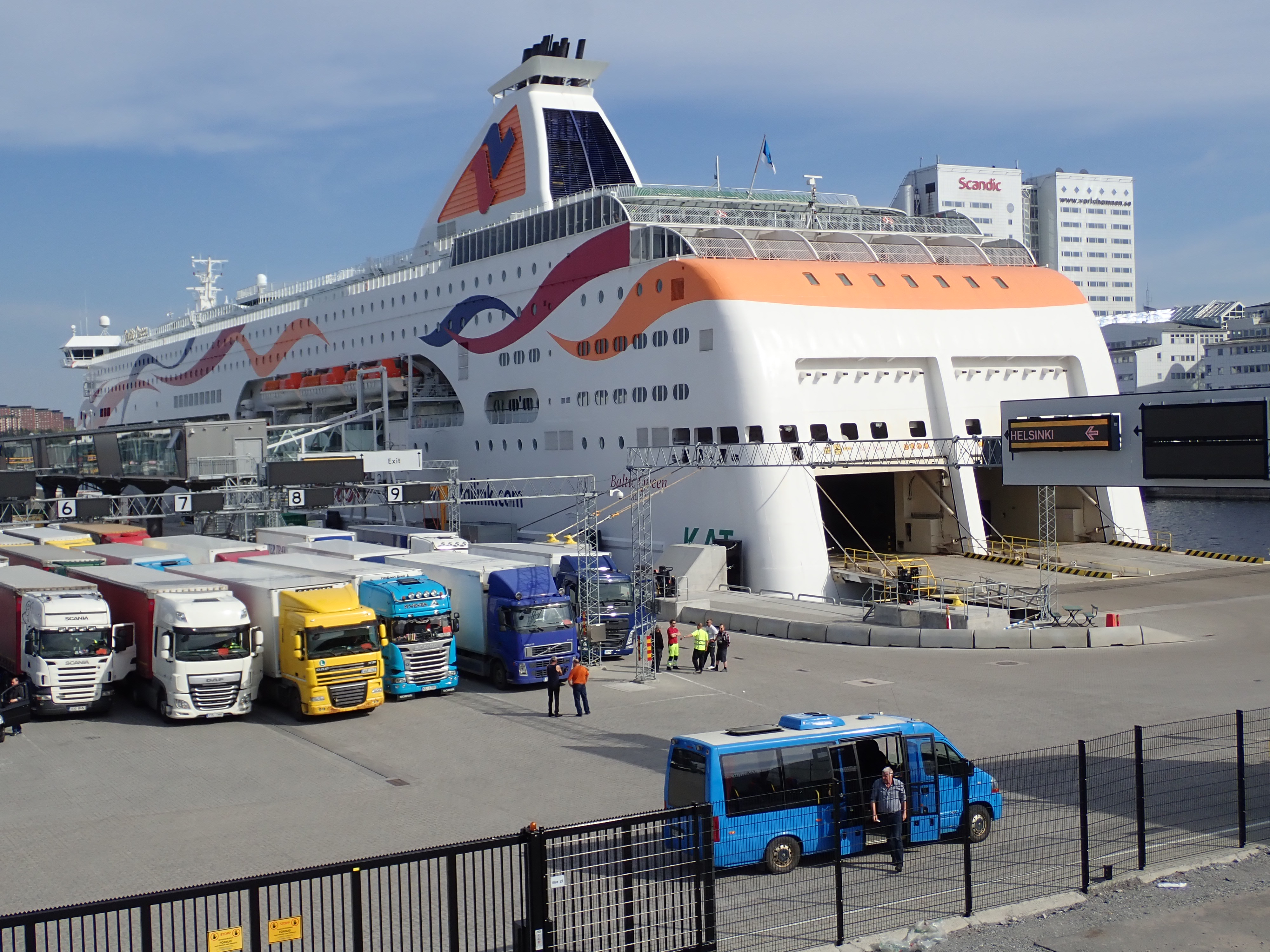 M/S Baltic Queen in Stockholm, Värtaterminalen, on May 8, 2018.